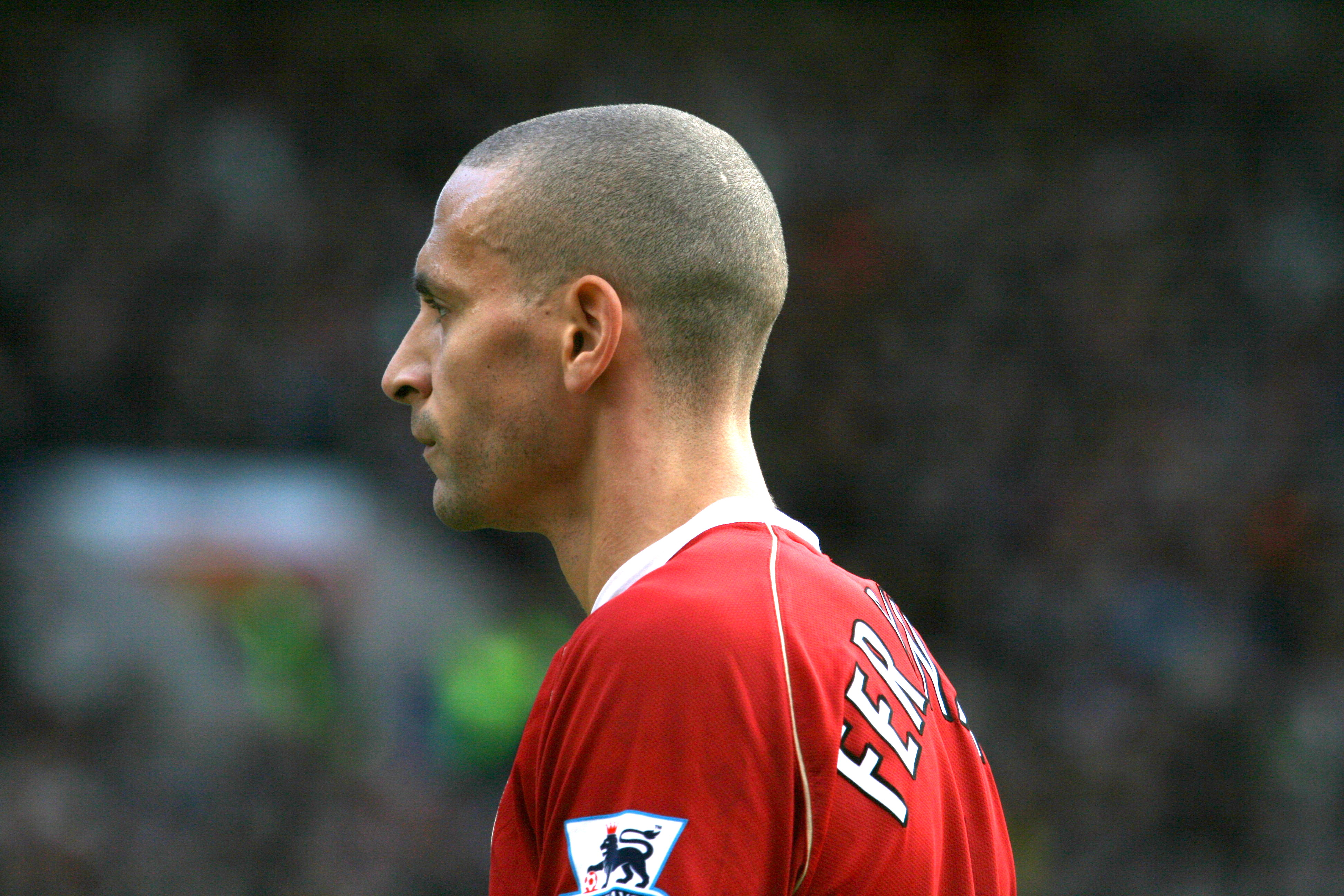 Manchester United player Rio Ferdinand.